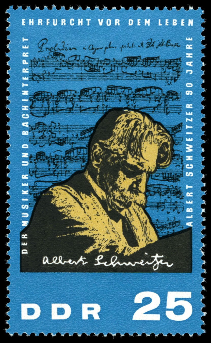 Ausgabepreis: Pfennig First Day of Issue / Erstausgabetag: Auflage: Entwurf: Druckverfahren: Michel-Katalog-Nr: Ländercode-MiNr: Licensing This file is most likely NOT in the public domain. It has been marked for review, and will be deleted in due course if the review does not find it to be in the public domain. This file was previously considered to be in the public domain as a German stamp; it is possible that it is in the public domain for other reasons, in which case a new rationale will be applied as part of the review process. See below for the previous rationale. Previous public domain rationale, no longer applicable This stamp is in the public domain in Germany because it was released by the postal administration of the German Democratic Republic or the Soviet occupation zone (Deutschen Post der DDR) whose legal successor is the Federal Republic of Germany. Thus it is an official work according to German copyright law (§ 5 Abs. 1 UrhG).